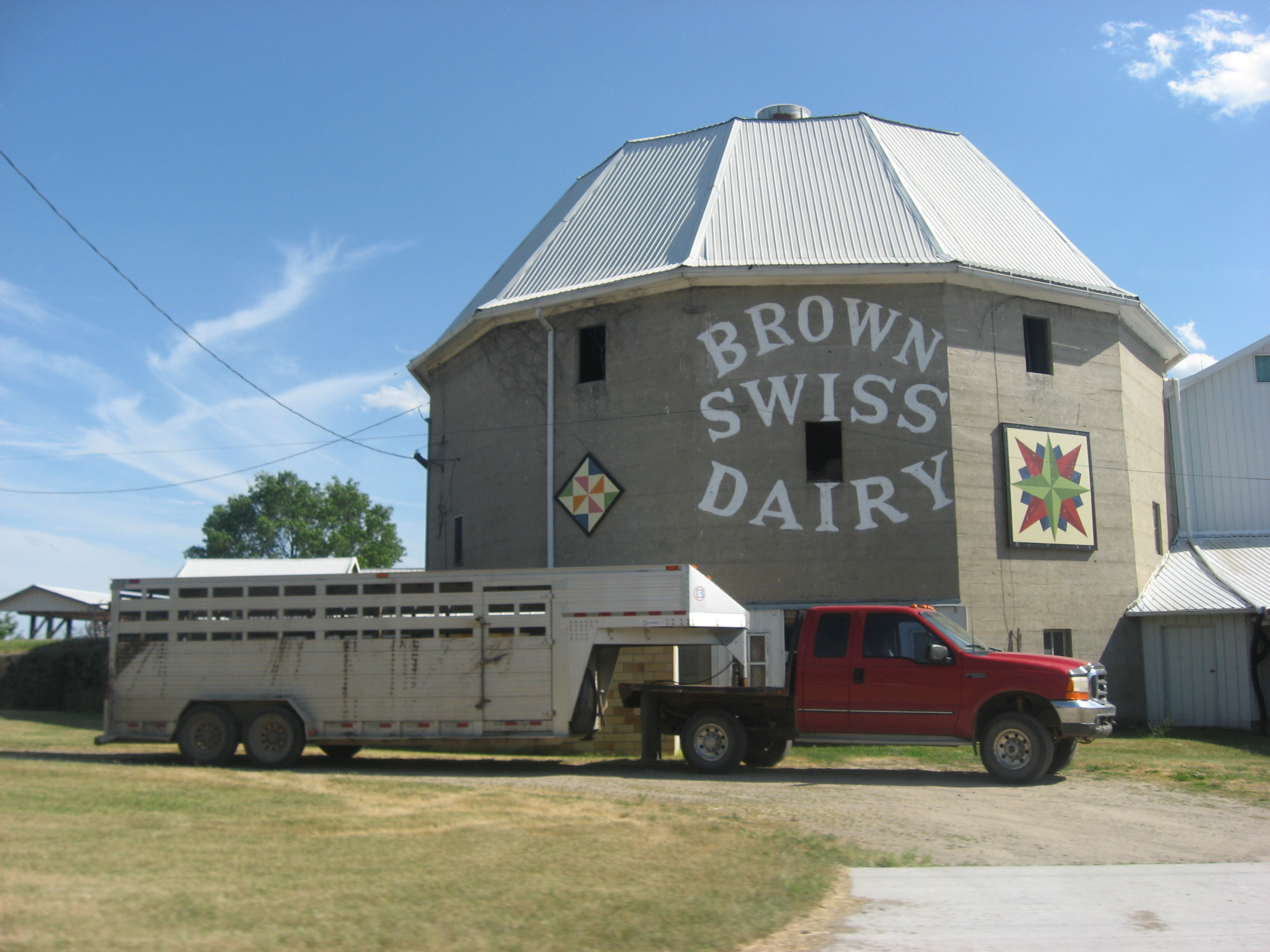 Northern sides of the Menno Yoder Polygonal Barn, located at 8690 W250N west of Shipshewana in Newbury Township, LaGrange County, Indiana, United States. Built in 1908, it is listed on the National Register of Historic Places.